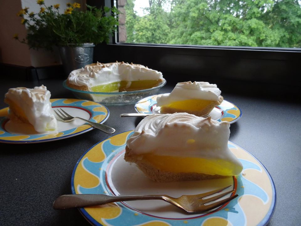 Aquafaba vegan colourful lemon pie